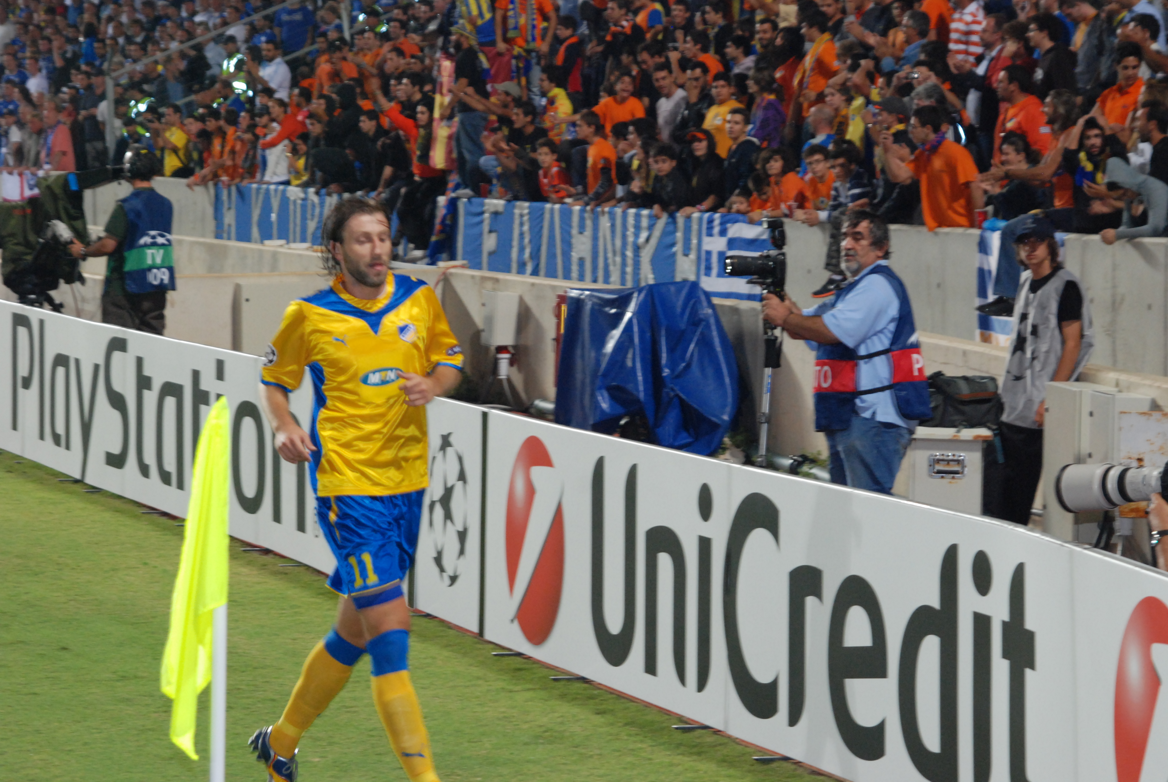 Photos from the UEFA Champions League game between APOEL Nicosia and Chelsea. 30 September 2009